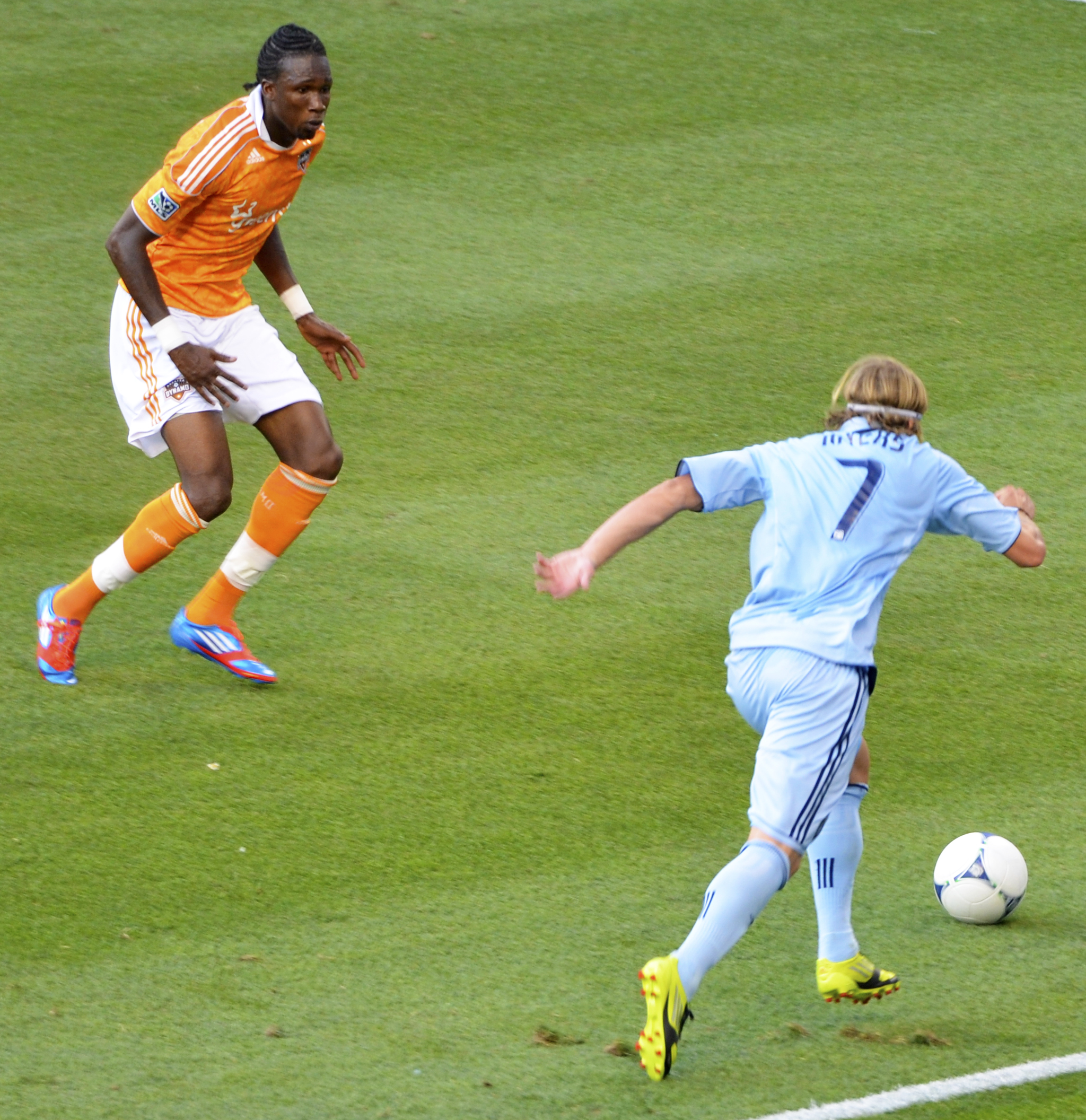 Macoumba Kandji, a midfield-forward for the Houston Dynamo's defends against Chance Myers of the Sporting KC on July 7th, 2012 at Livestrong Sporting Park.